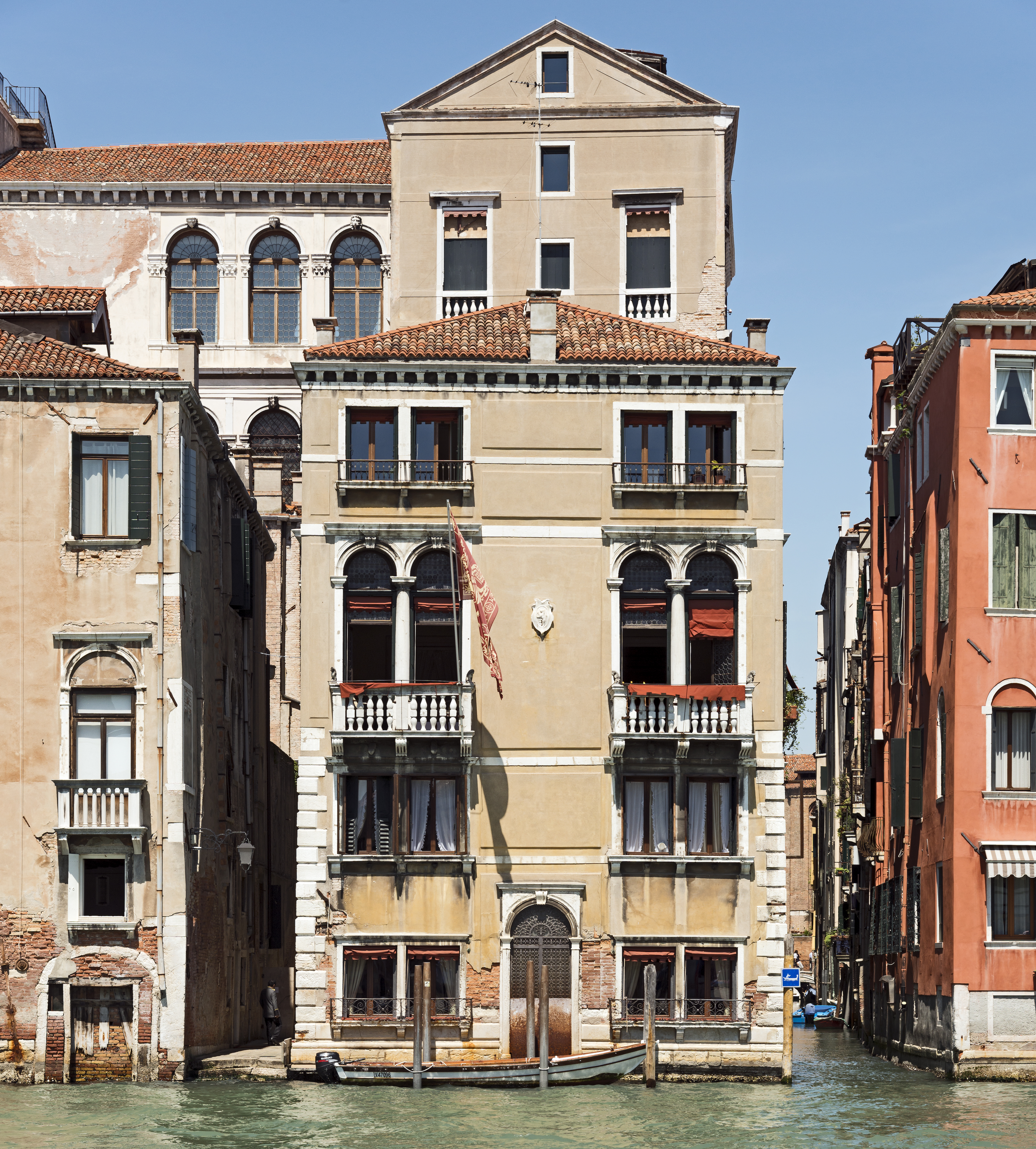 Palazzetto Pisani – Facade on Grand Canal, in Venice.